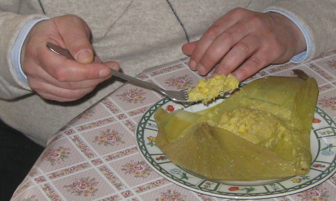 Eating humitas in Chile